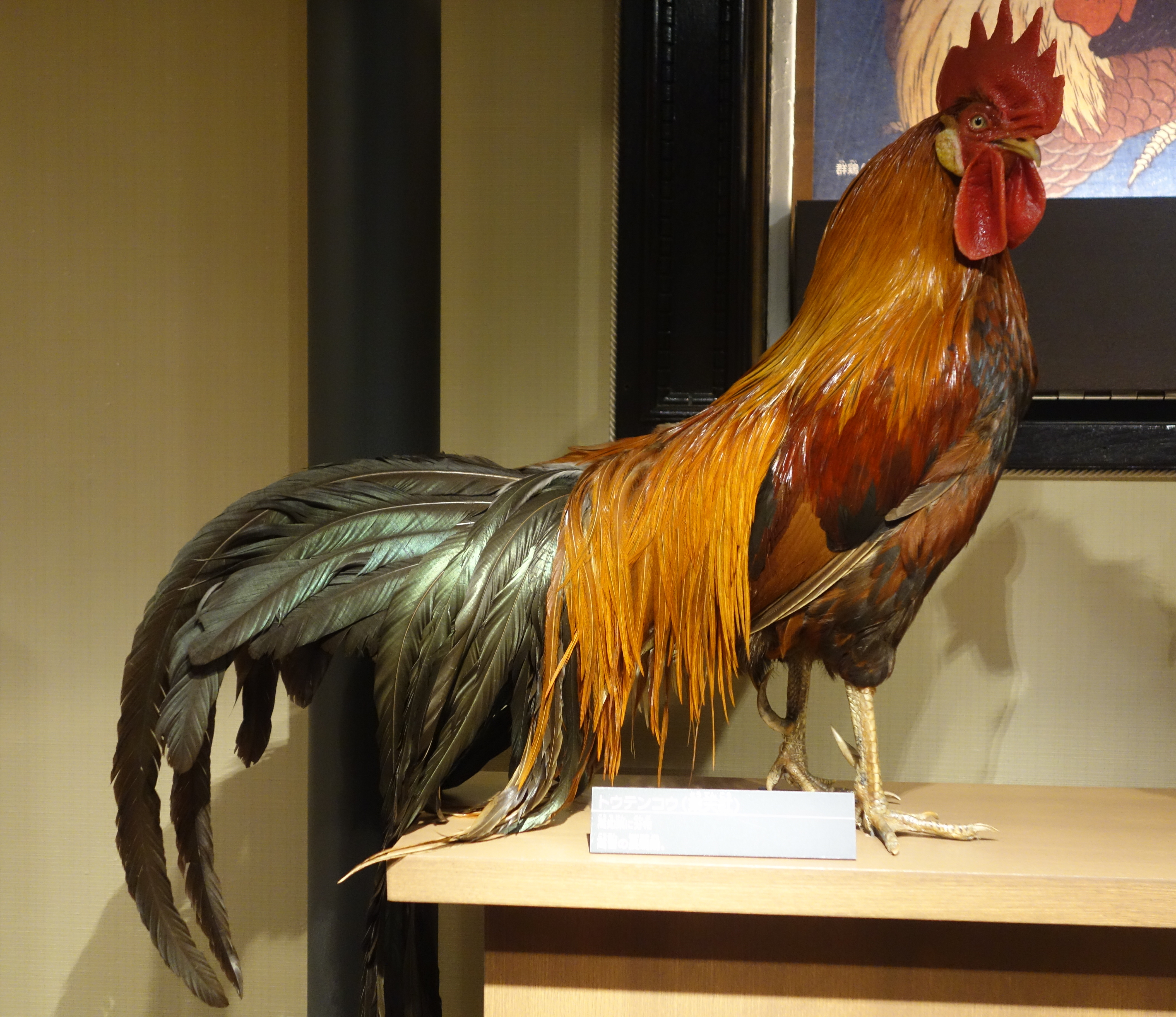 Exhibit in the National Museum of Nature and Science, Tokyo, Japan.